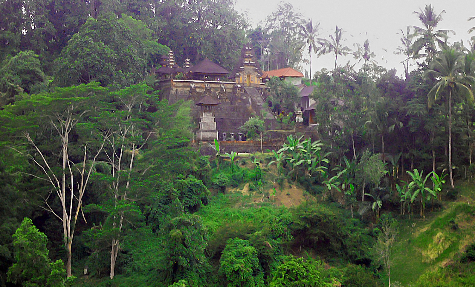 This is a hindu temple into the rainforest in Ubud, Bali.